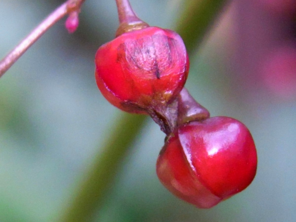 Talinum paniculatum Chatswood West, Australia. Invasive plant species